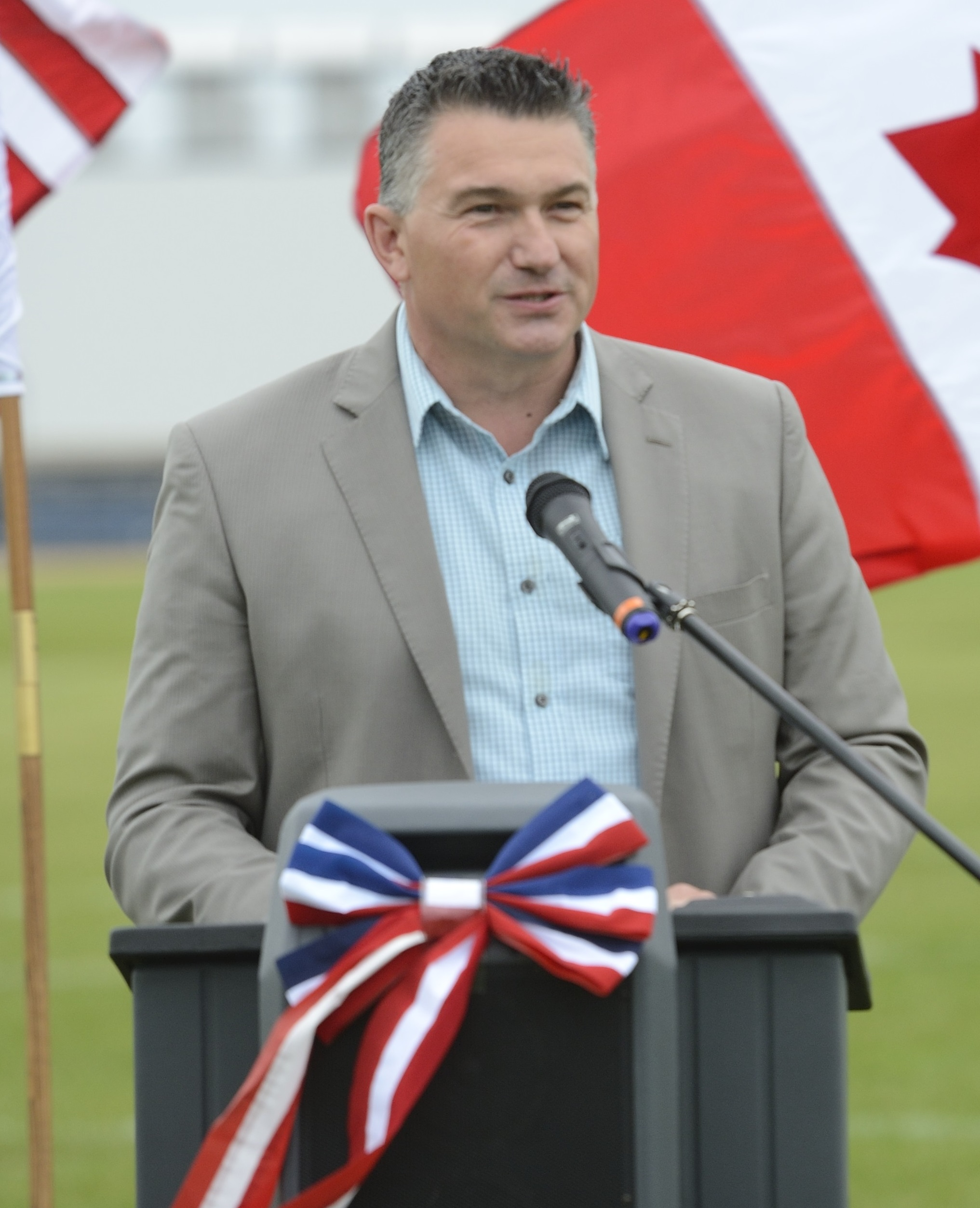 Member of Parliament James Bezan speaks during 4th of July celebrations at 17 Wing Winnipeg..